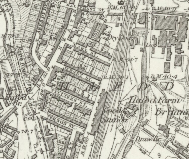 Ordnance Survey map published in 1884, depicting an area of Swansea, Wales that lies south of Maliphant Street. The railway sidings and turntable of Maliphant Sidings are clearly seen adjacent to the goods station. Swansea High Street station is to the south of the mapped area.